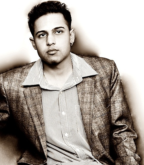 Paragpuria Peeta